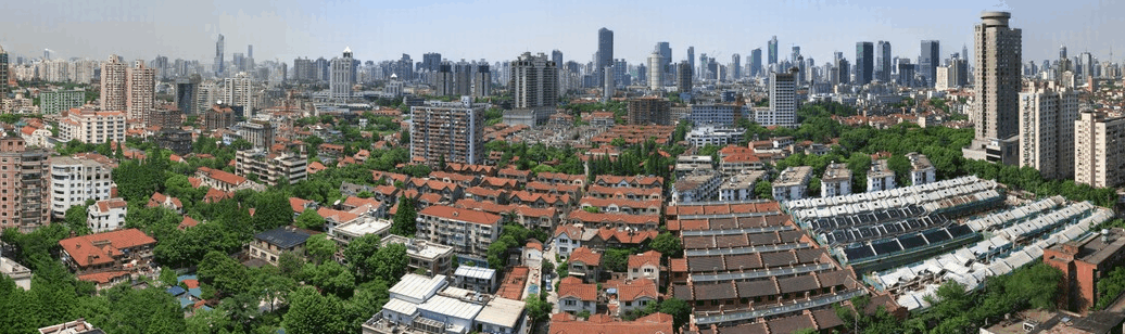 Shanghai skyline was stitched from 12000 18M images taken from Canon 7D with a 800mm lens. This image hold world record for almost 2 years.